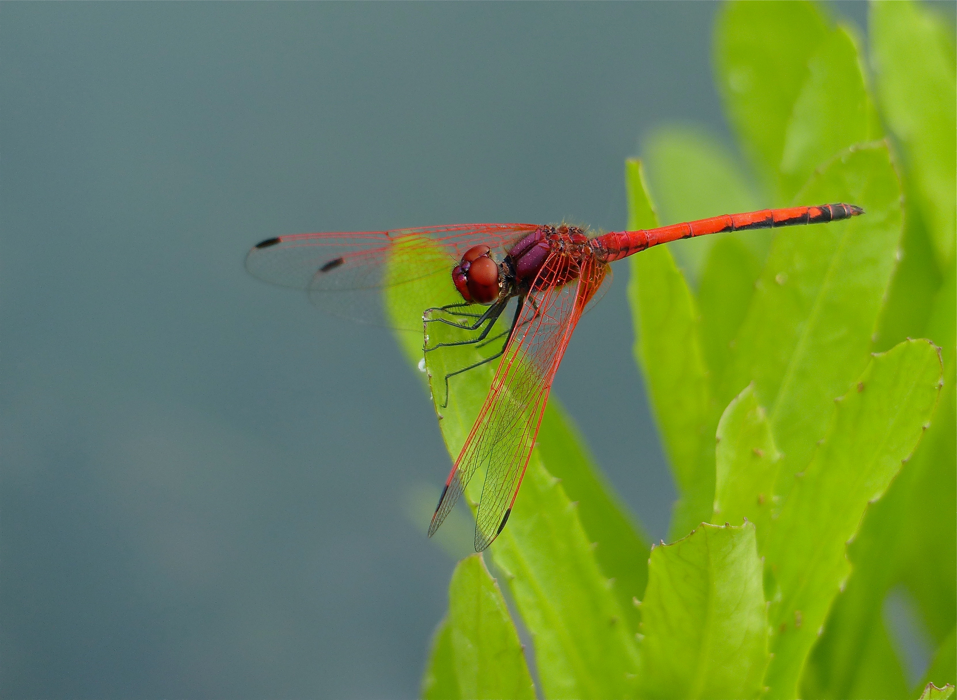 S39 Road North of Satara, Kruger NP, SOUTH AFRICA